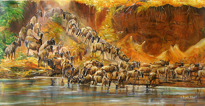 "Wildebeest Crossing the Mara River" by Albert Lizah - (62x33cm), Acrylic on canvas